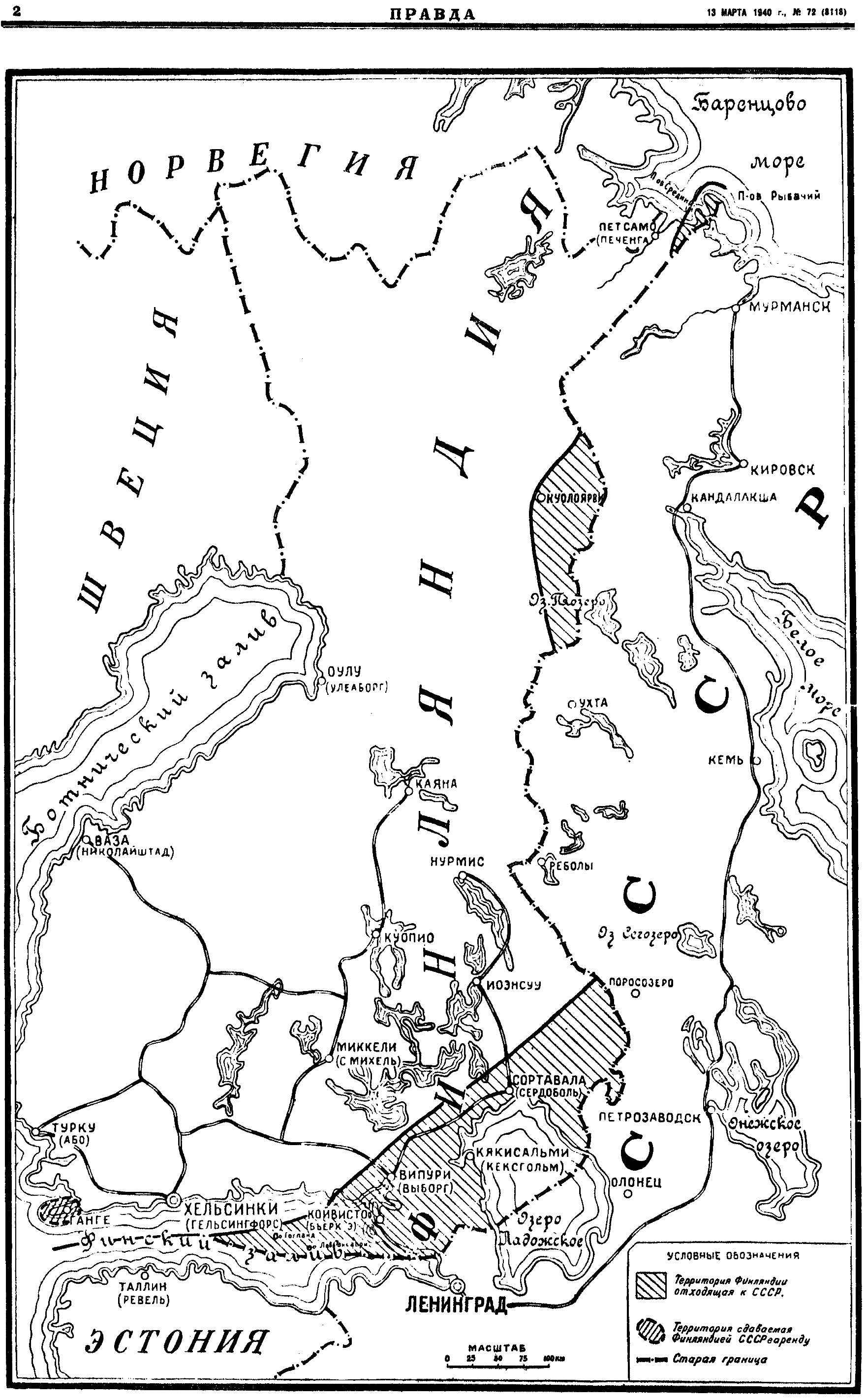 Finland - USSR new border. March 13, 1940.